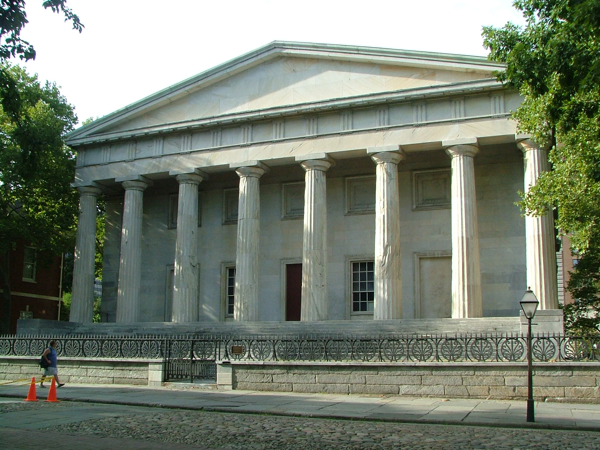 Second Bank of the United States, Philadelphia, built 1819-24, William Strickland, architect.